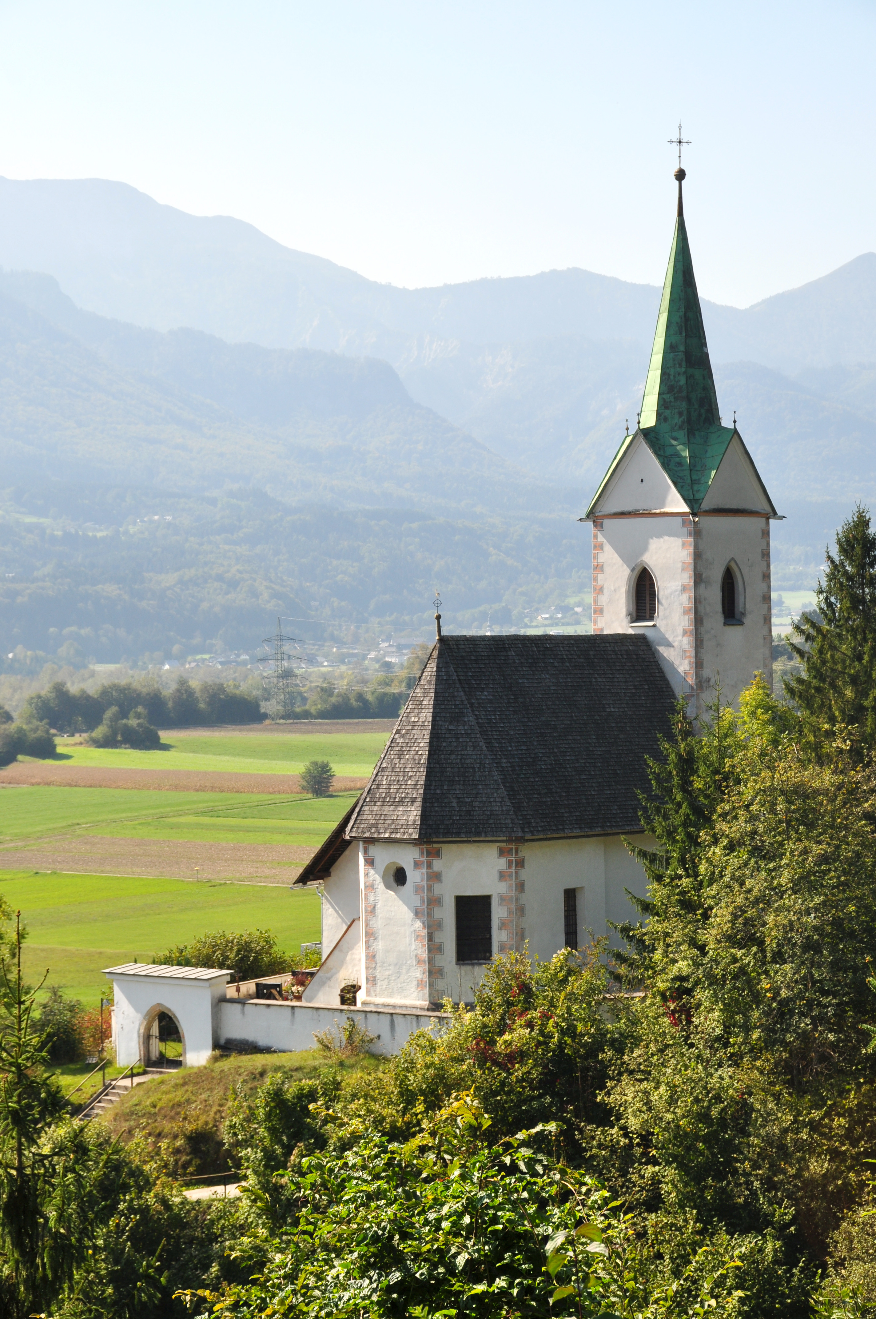 Subsidiary church Saint Peter and Paul at the locality Wellersdorf (Velinja vas), municipality Ludmannsdorf (Bilčovs), Carinthia, Austria